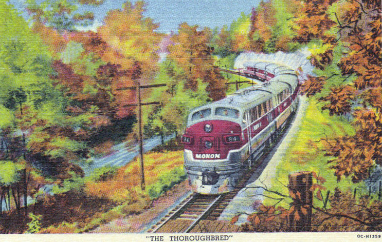 Postcard depiction of the Monon Railroad train "The Thoroughbred" which traveled from Chicago to Louisville.